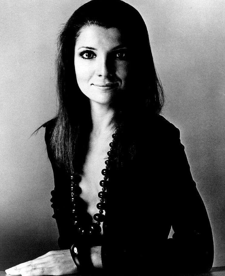 Photo of singer-actress Dana Valery.